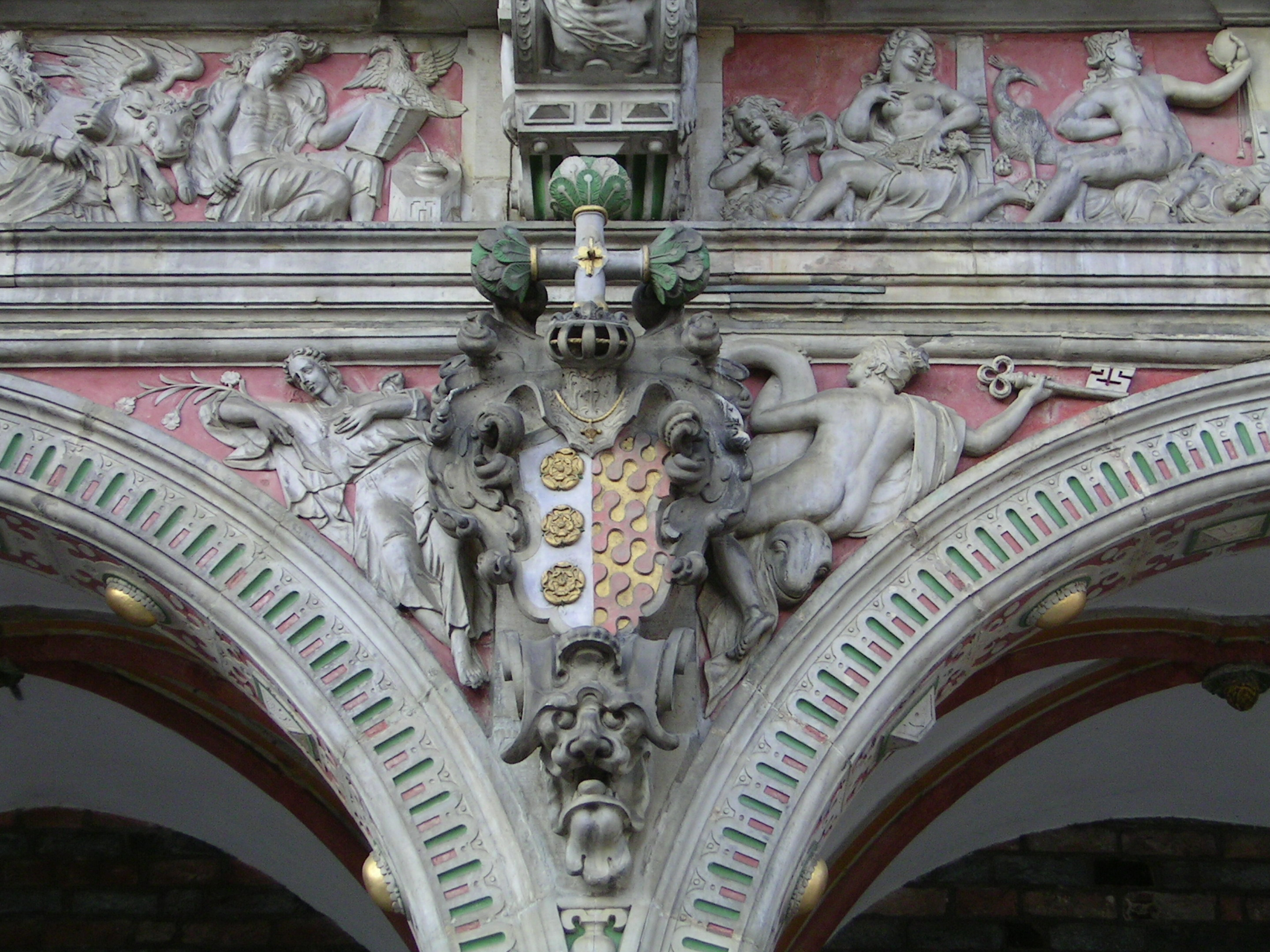 Coat of arms of mayor Johann Brand (the younger) at the Town hall of Bremen.